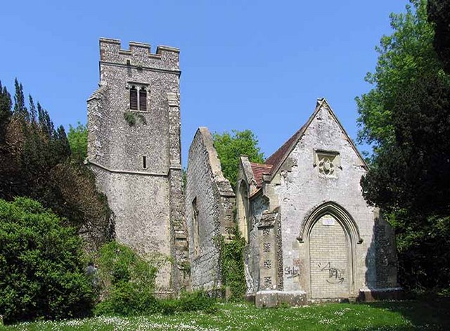 Ruined parish church of St Mary, Eastwell, Kent, seen from the south. On the right is the mortuary chapel added in the 19th century.